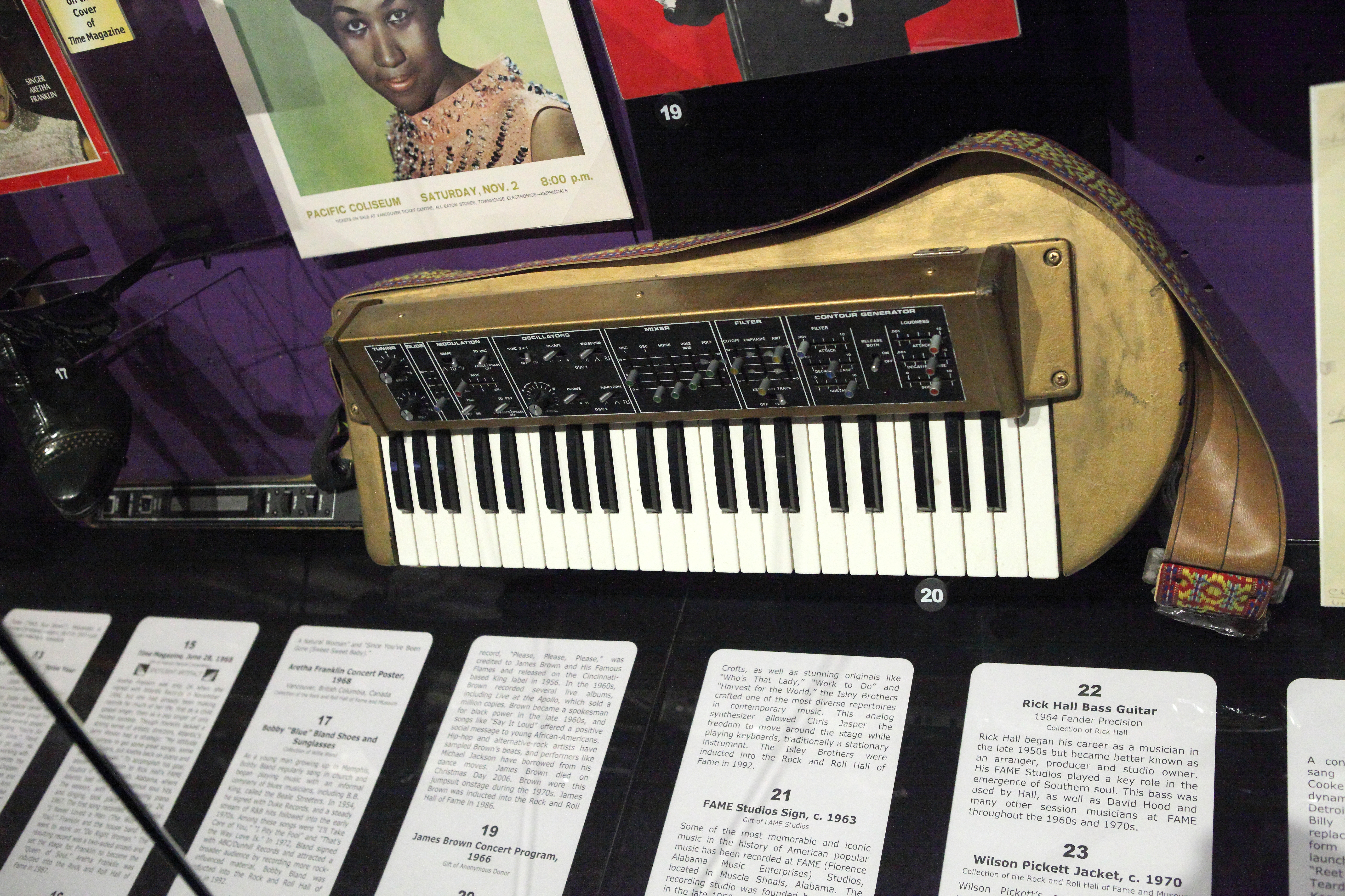 Keytar at the Rock and Roll Hall of Fame in Cleveland, Ohio. Flickr Tags: ohio cleveland instrument keytar rockandrollhalloffame. Flickr Tags: Rock and Roll Hall of Fame Cleveland Ohio. from Flickr album "Rock and Roll Hall of Fame" by Sam Howzit